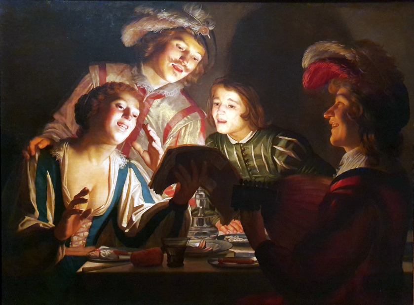 Gerard van Honthorst - Musical group by candlelight (1623)